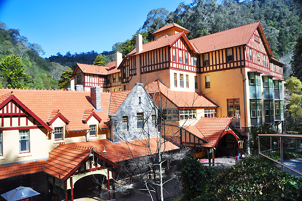 Tourists can stay at historic hotel, Caves House, Jenolan, NSW, Australia.